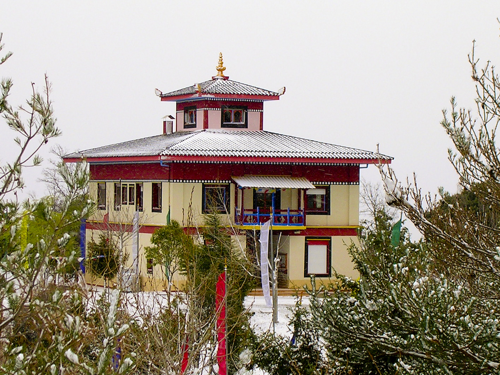 The Tibetan style monastery building — at Vajrayana Buddhist Center Dag Shang Kagyu. Located in Panillo, Aragón — Spain.gompa